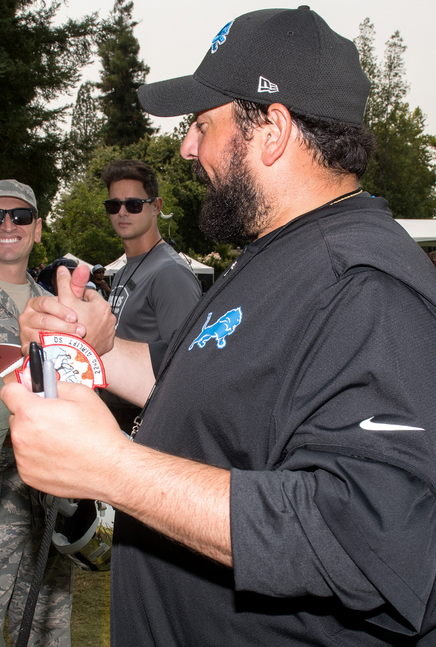 Matt Patricia in 2018 (cropped using scissor tool)